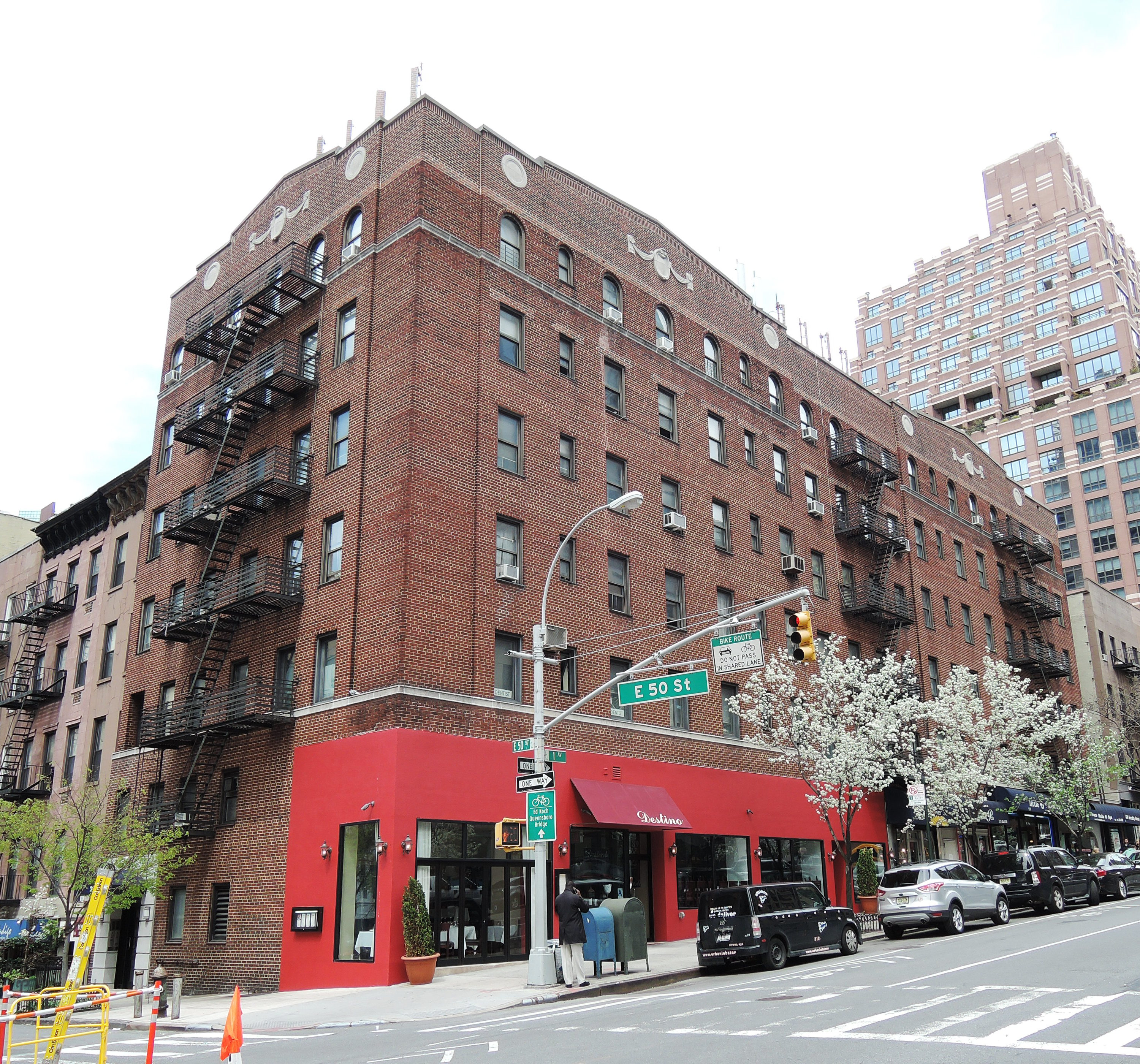 Looking north at brick apartment house on a partly sunny midday.